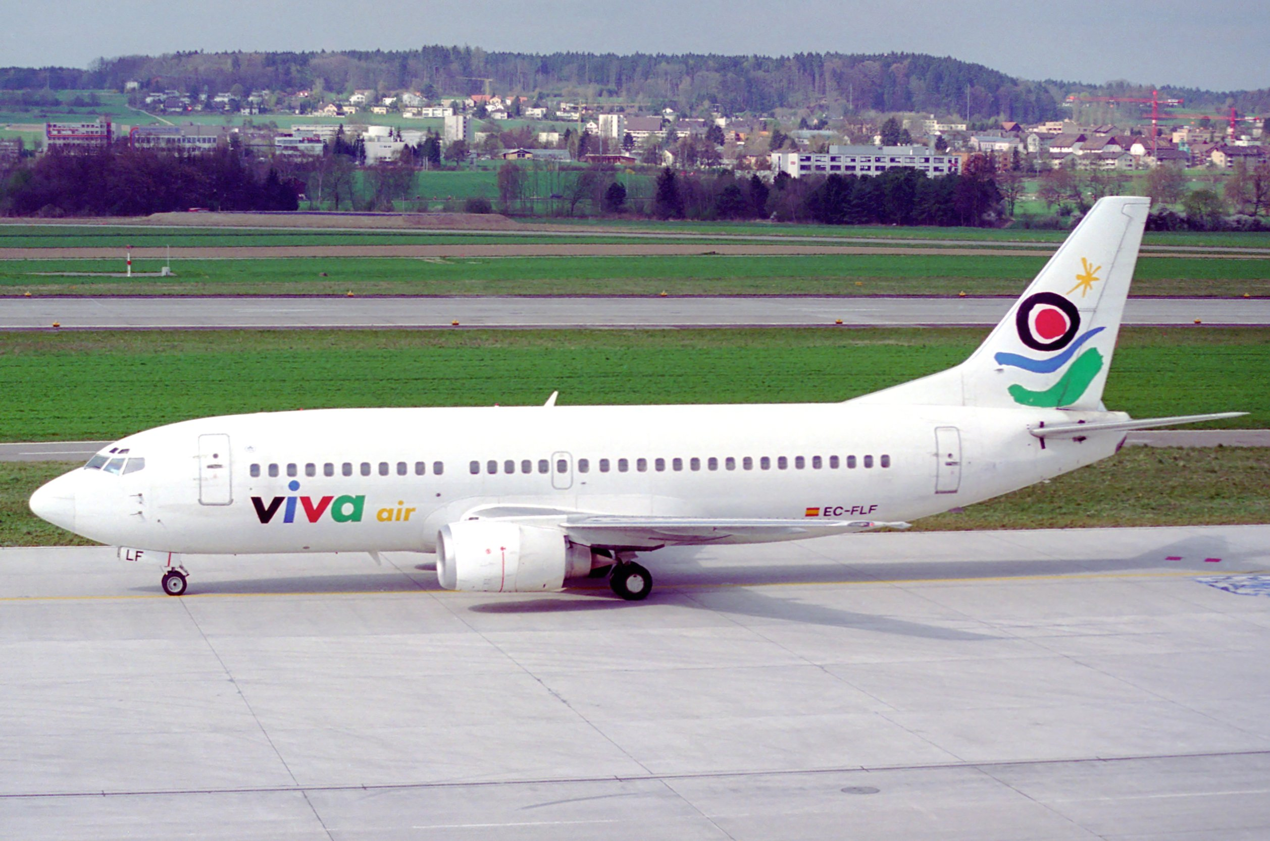 This Boeing 737-36E took its first flight on December 6, 1991... 14/01/1992 Viva Air EC-705 17/04/1992 Viva Air EC-FLF 28/09/1999 Air Europa EC-FLF 07/04/2000 Frontier Airlines N317FL last service 04/2004 15/01/2005 Bluebird Cargo TF-BBG converted to freighter